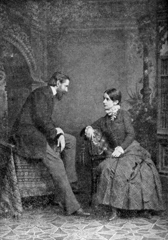 Otakar Hostinský (1847-1910) and his wife Zdenka Hostinská (1863-1942).